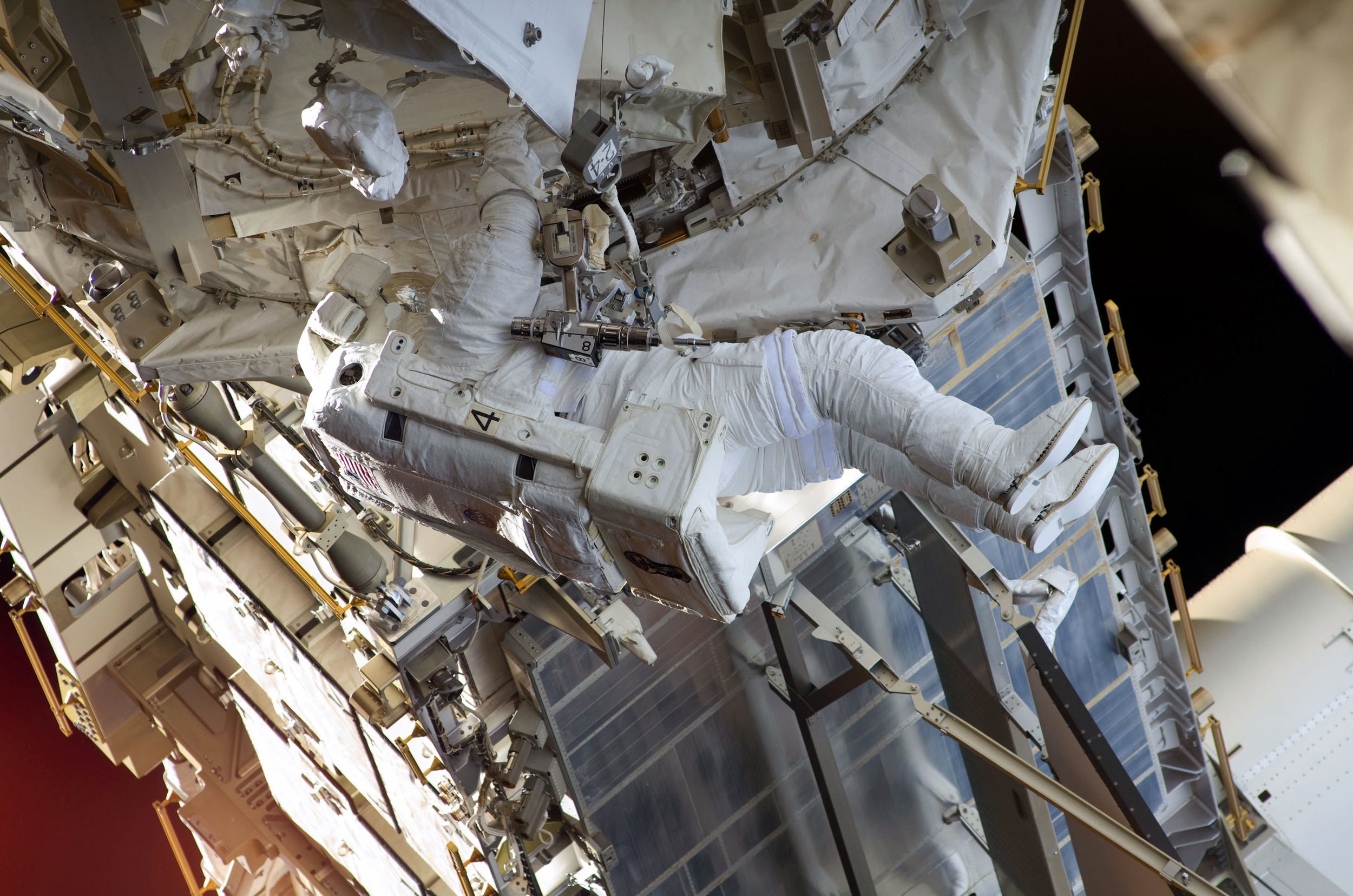 Astronaut Steve Bowen, STS-126 mission specialist, participates in the mission's third scheduled session of extravehicular activity (EVA) as construction and maintenance continue on the International Space Station. During the six-hour, 57-minute spacewalk, Bowen and astronaut Heidemarie Stefanyshyn-Piper (out of frame), mission specialist, focused their efforts on the continued cleaning of the station's starboard solar alpha rotary joint (SARJ) and the removal and replacement of trundle bearing assemblies (TBA). Bowen and Piper also cleaned the area around the SARJ's drive lock assemblies, which help the joint to rotate and lock into place.